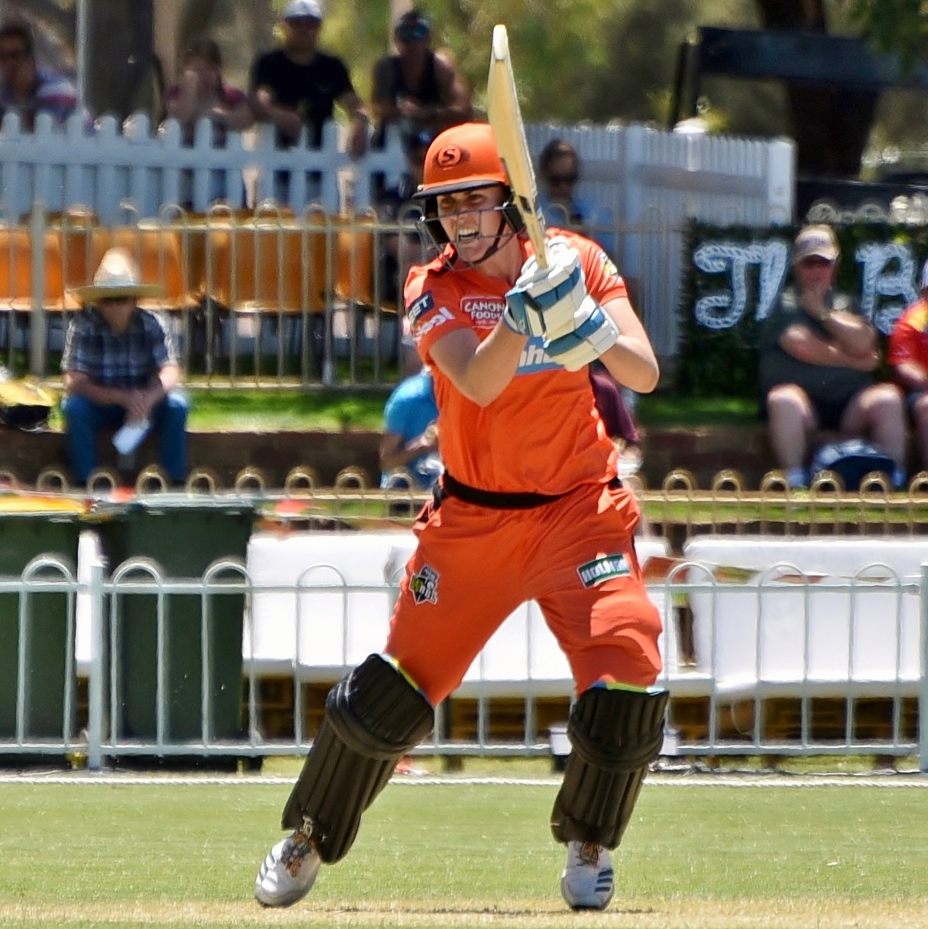 England international and Perth Scorchers all-rounder Natalie Sciver brings up her 50 during her Player of the Match-winning 52 against the Sydney Sixers, in a WBBL match at Lilac Hill Park in Perth